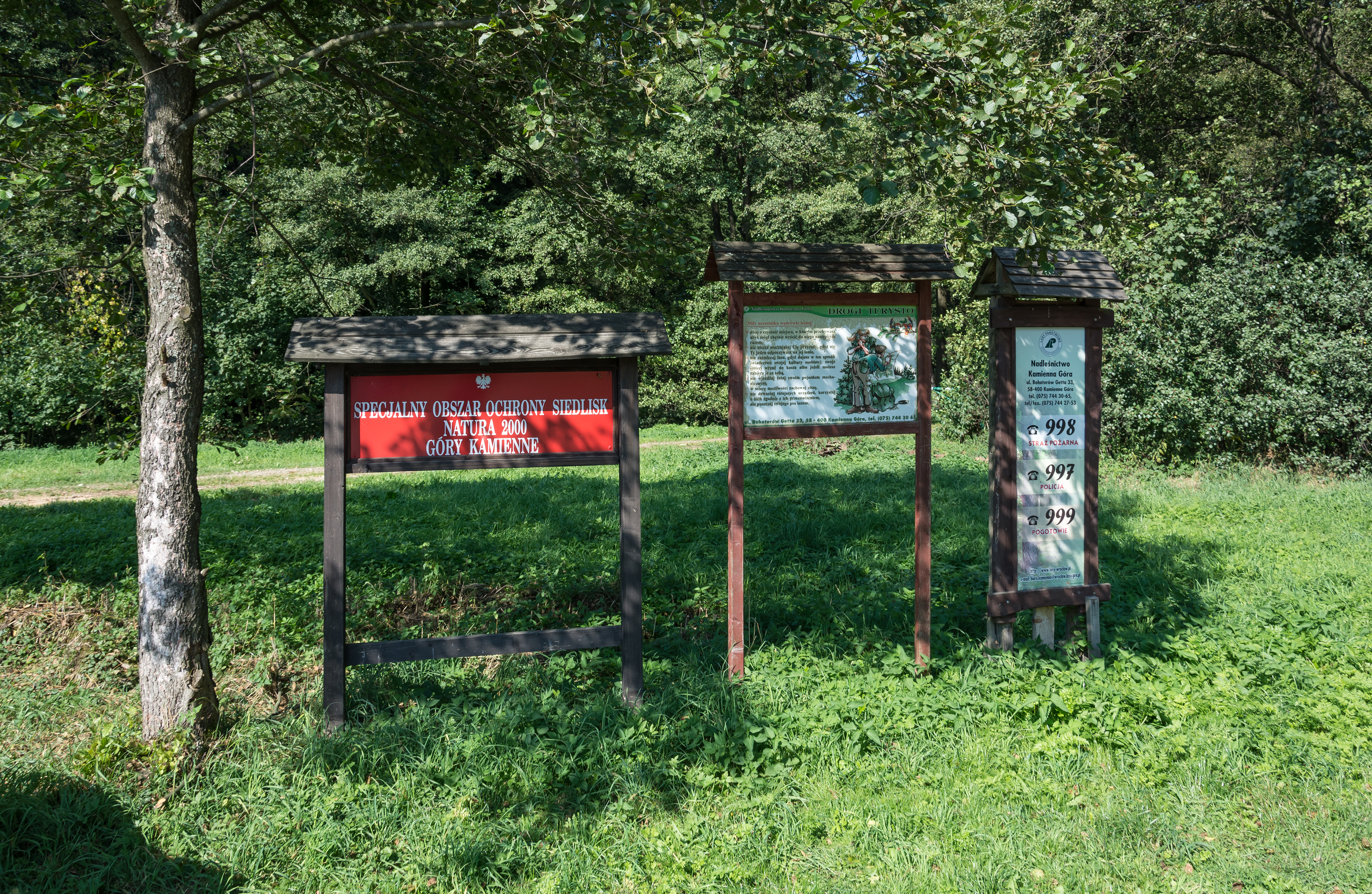 Natura 2000 area, information board